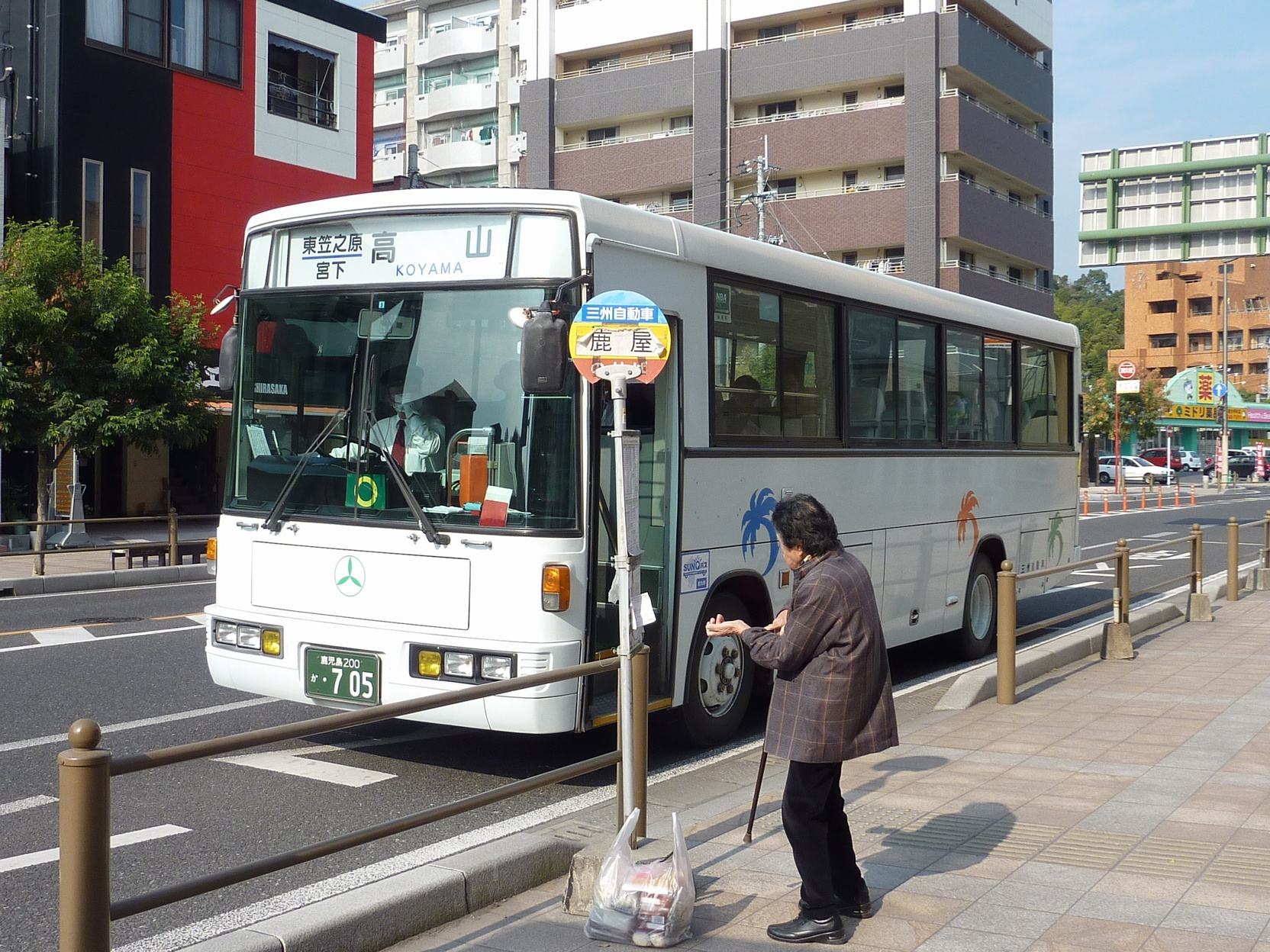 Sanshu Bus (Iwasaki Group) Kanoya Bus stop (Kanoya City, Kagoshima Prefecture, Japan)